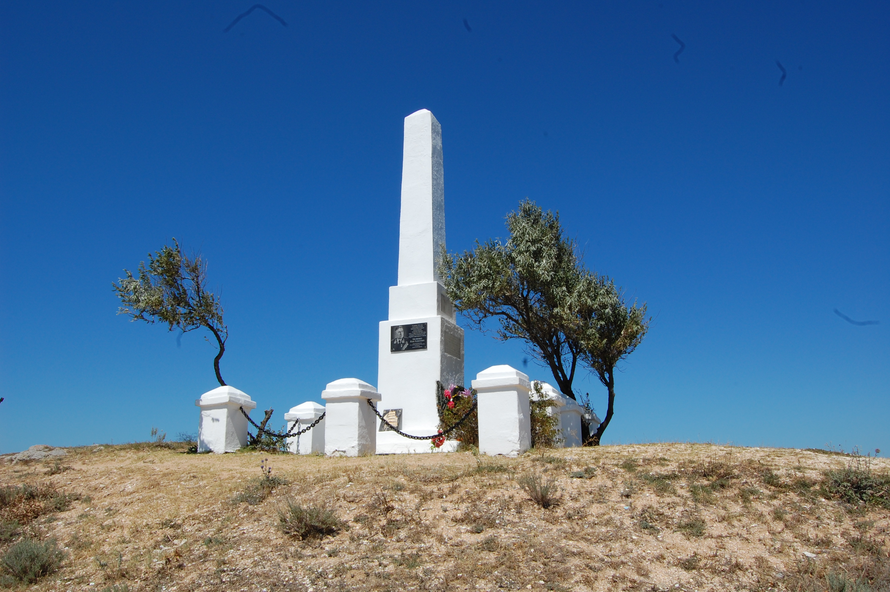 Monument to the Akmonai landing (Battle of the Kerch Peninsula) at the site of the landing of the 83 brigade of the 51 Army of the Transcaucasian Front and its commissar Ilya Teslenko; Cape Zyuk, Kurortnoye village, Leninsky district of Crimea